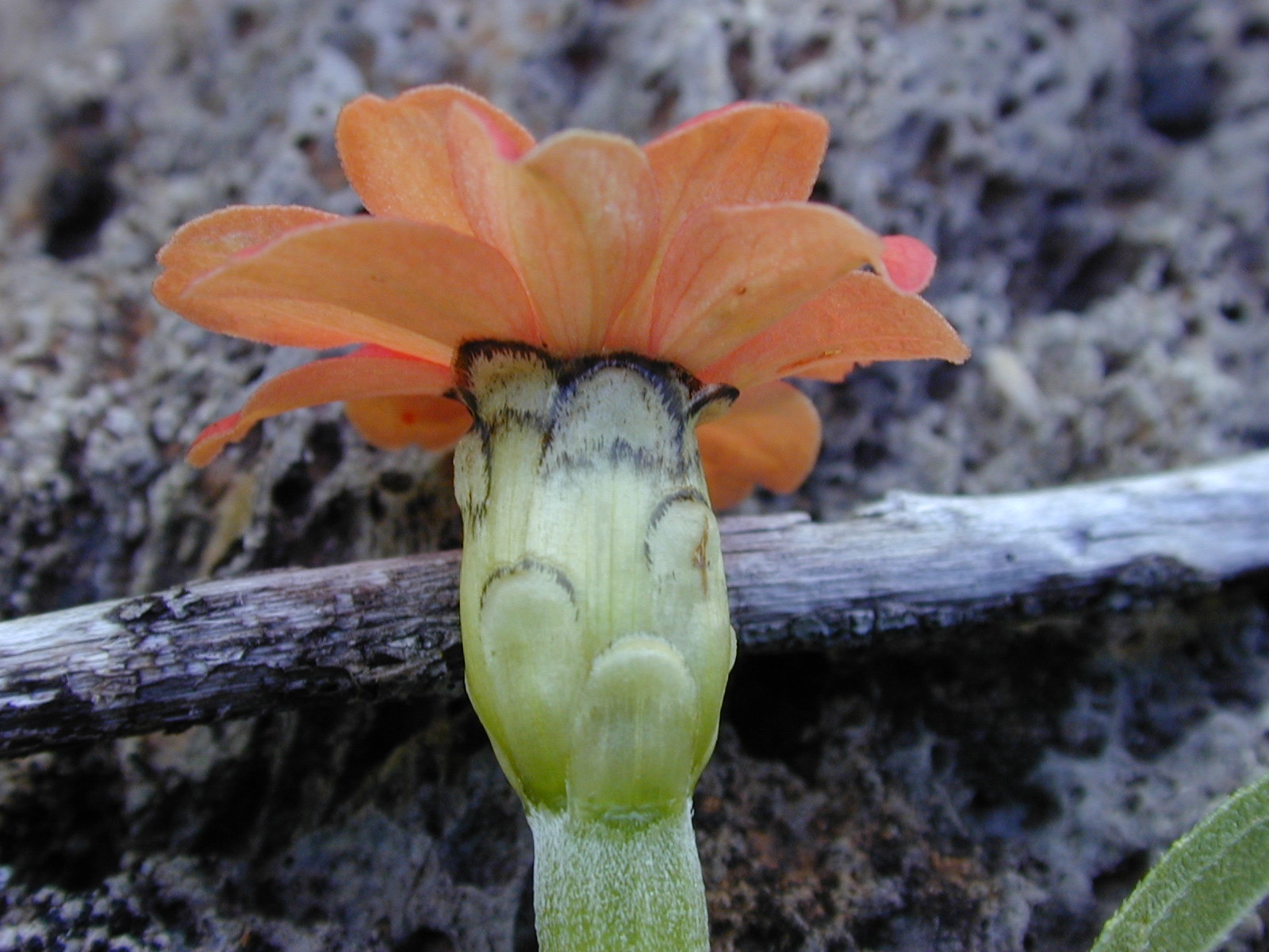 Zinnia peruviana (profile flower). Location: Maui, NHPS Hibiscus brackenridgei excl Waikapu